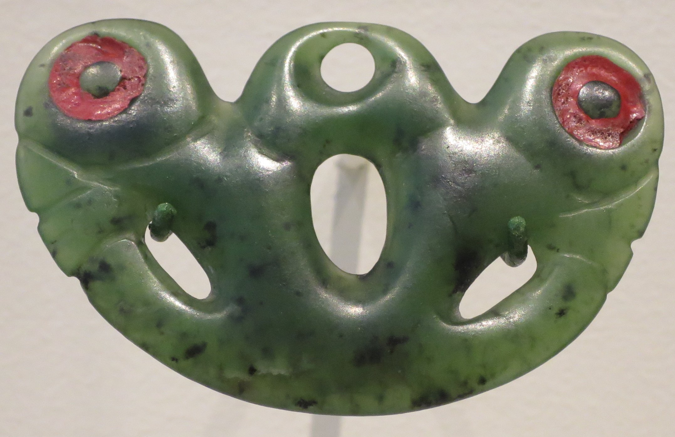 Ear pendant (peka peka), Maori people, New Zealand, 19th century, carved greenstone and red sealing wax, Honolulu Museum of Art, accession 3351